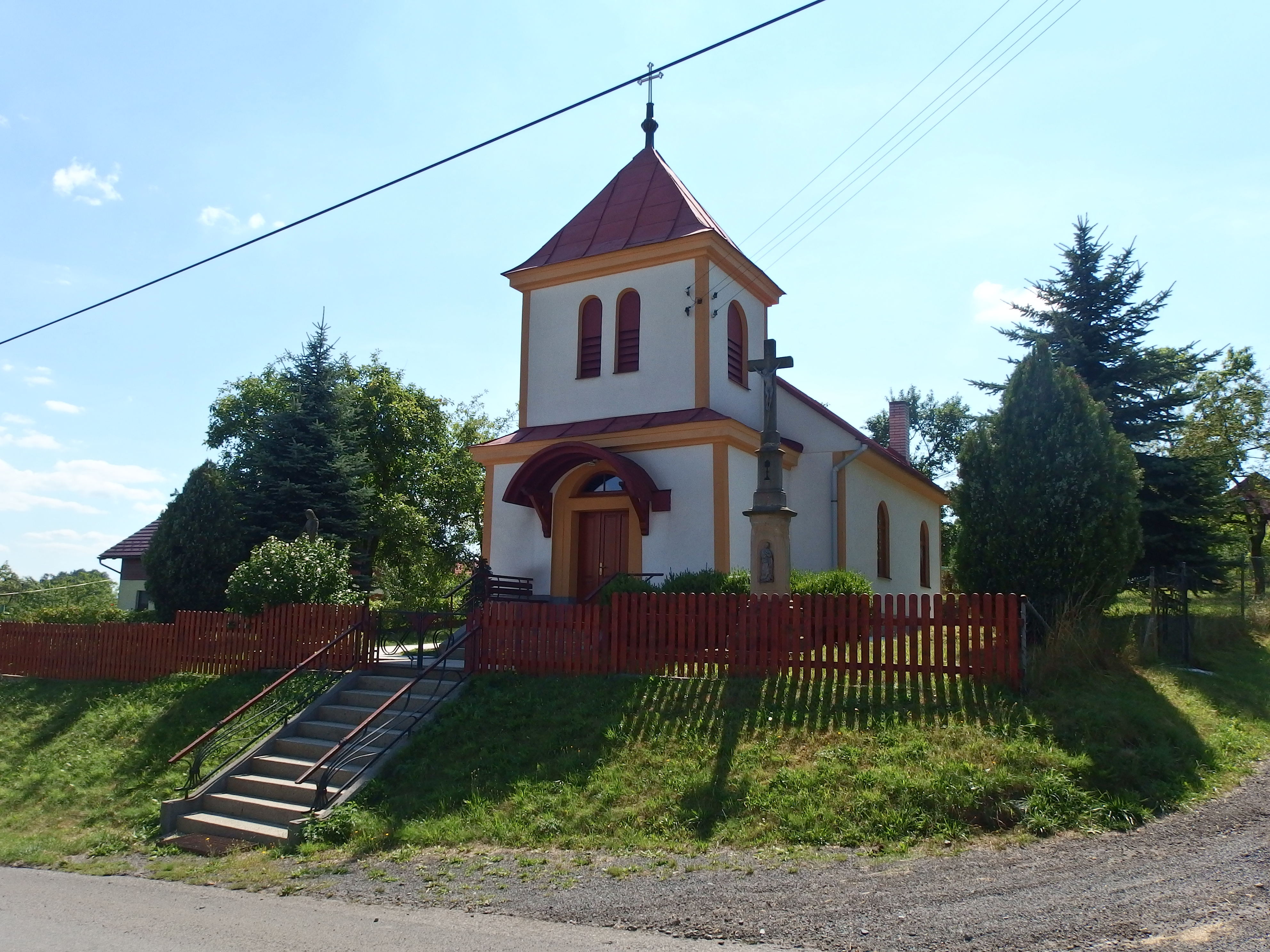 Starý Jičín, Nový Jičín District, Czech Republic, part Heřmanice.